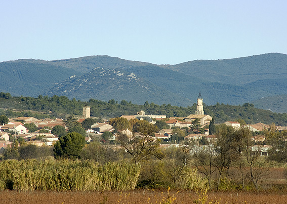 A view of Cazouls les Beziers